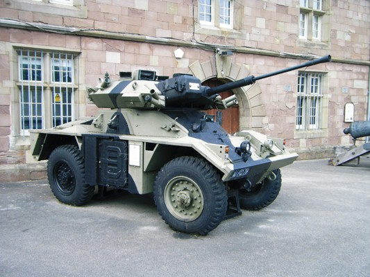 Fox Scout Car at Royal Monmouthshire Royal Engineers (Militia) Museum, Monmouth, 06/10.